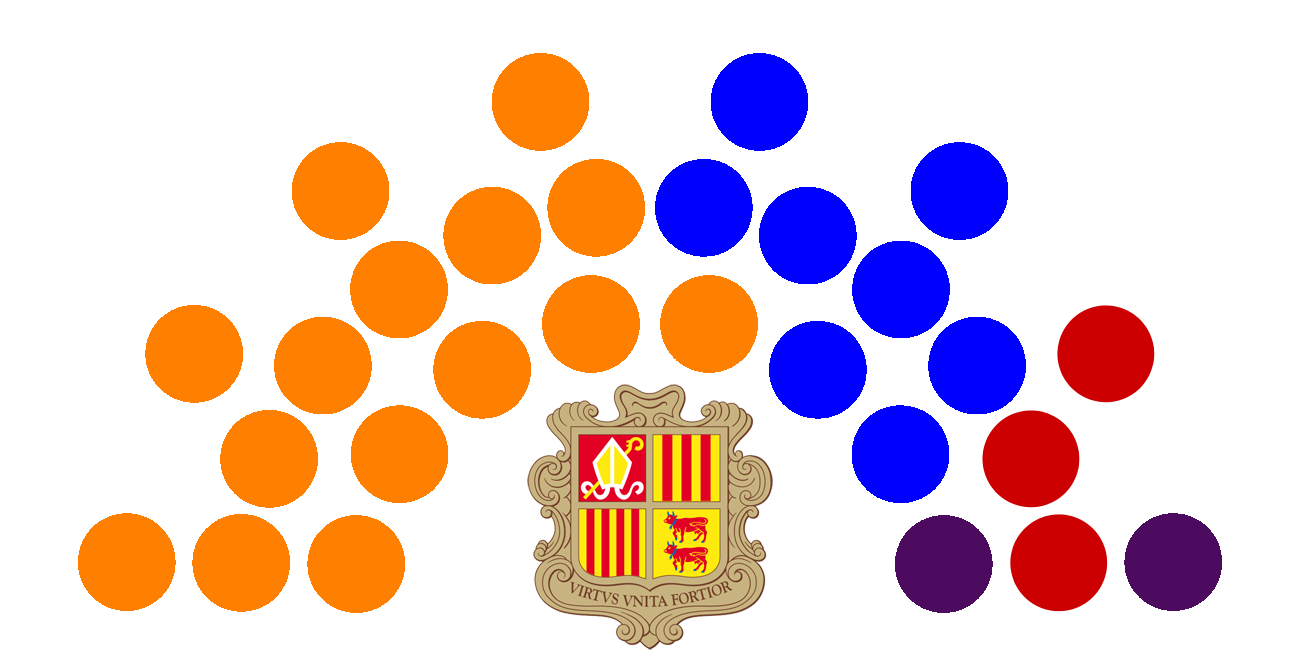 2015 Andorra Parliament Structure